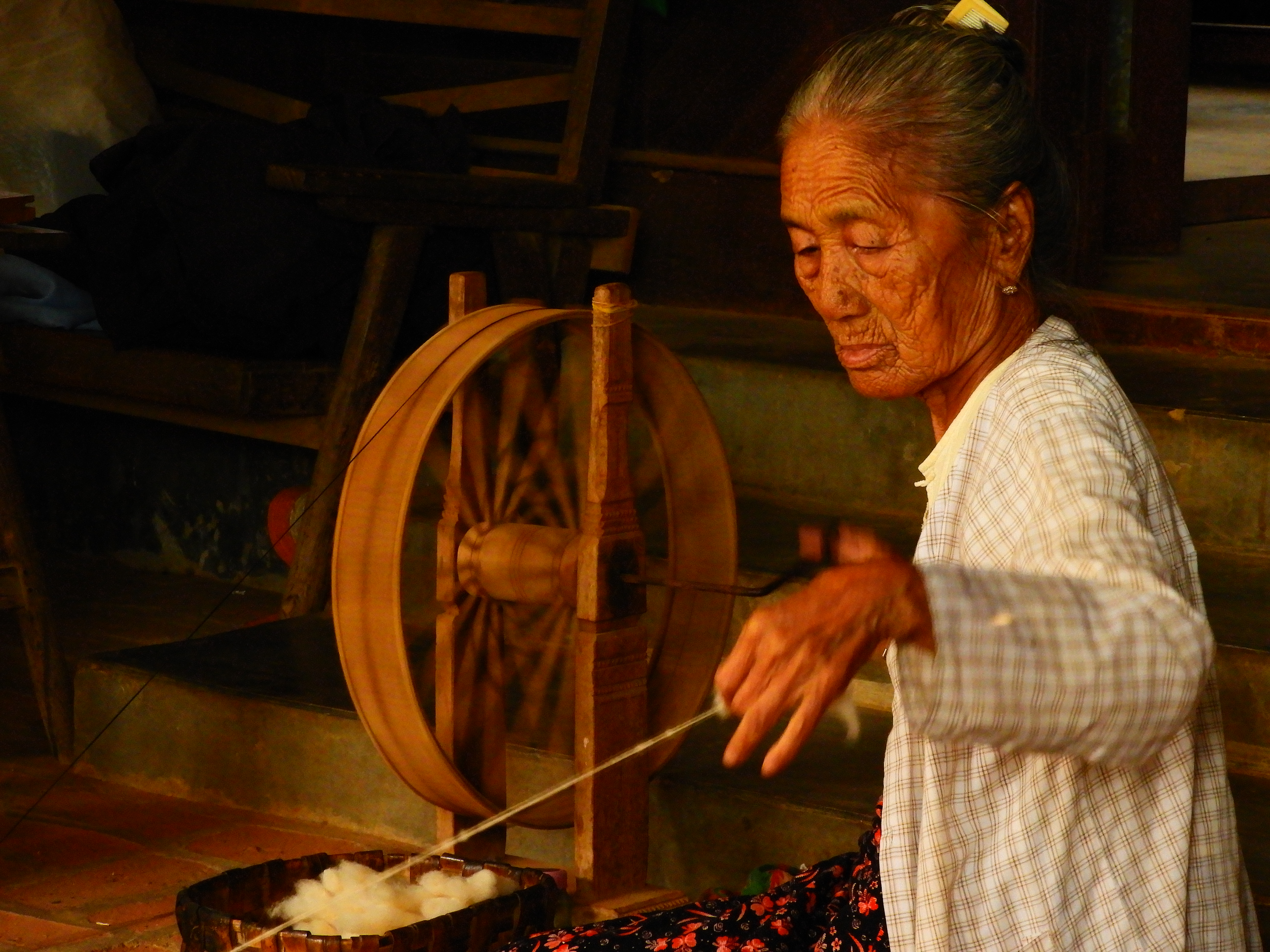 An old woman spinning in her family's house in Old Bagan, Myanmar. This photo has been taken in the country: Myanmar